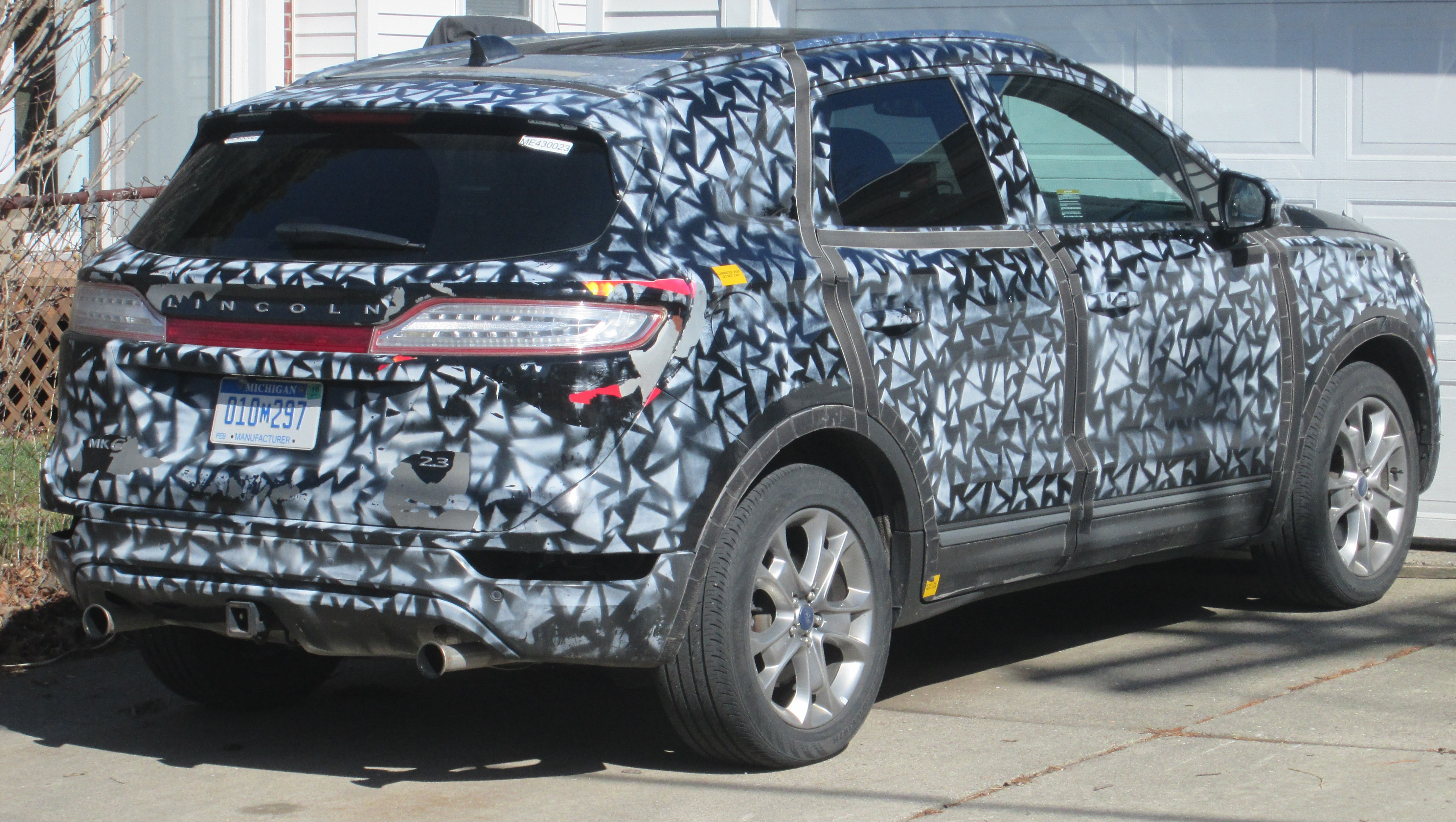 Lincoln MKC painted in camouflage patterns to obscure details of model year changes